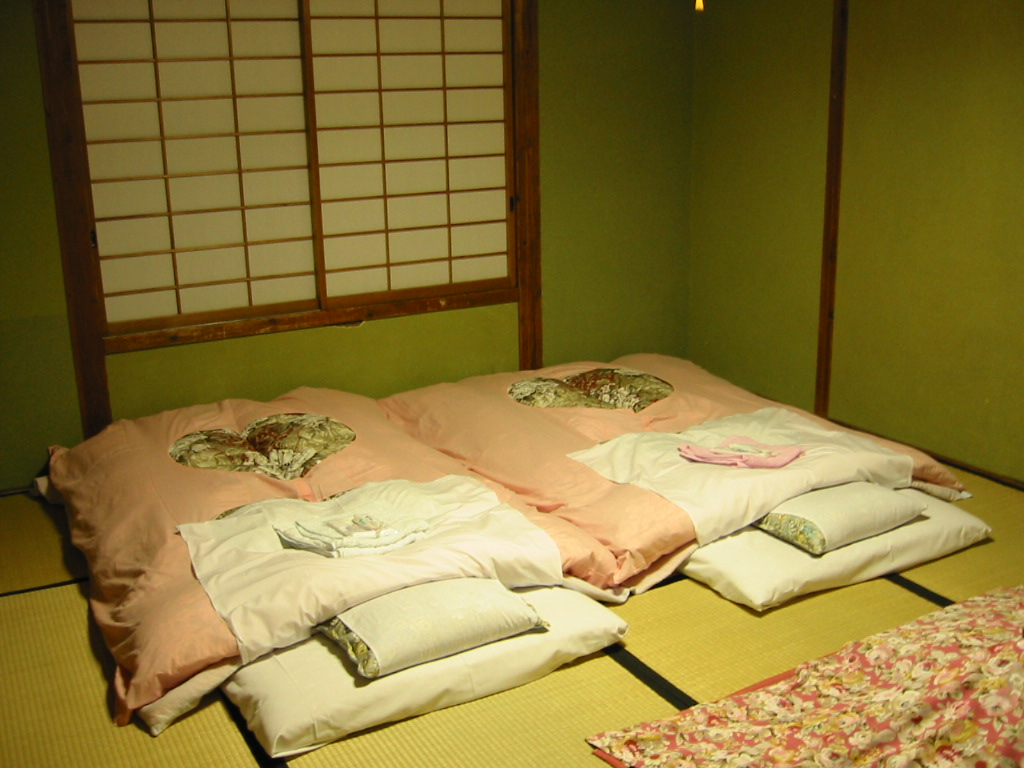 two futons in a ryokan